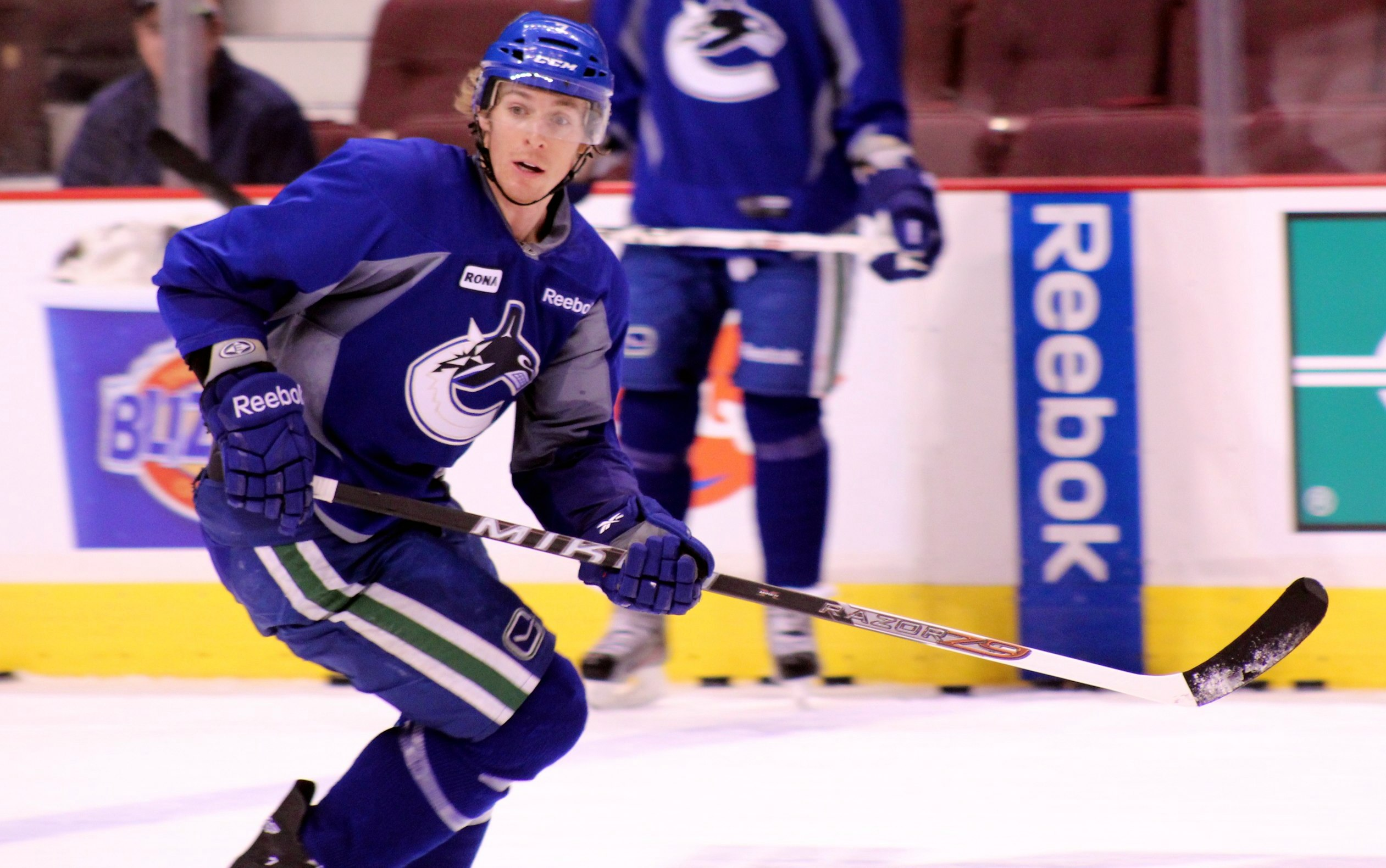 Vancouver Canucks forward David Booth during a practice on March 9, 2012.